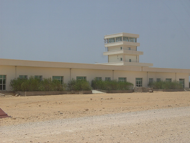 The Bender Qassim International Airport (Bosaso Airport) in Bosaso, Puntland, Somalia.